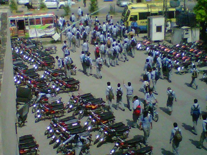 Punjab College Gujrat